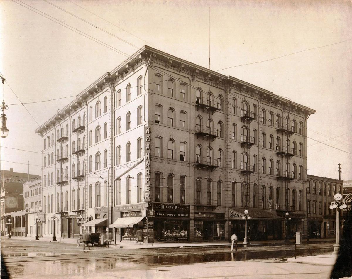 Harper House, a historic hotel in Rock Island, IL.